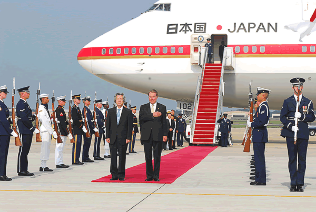 Japanese Primi Minister Junichiro Koizumi arriving at Andrews Air Force Base, 28 June 2006.